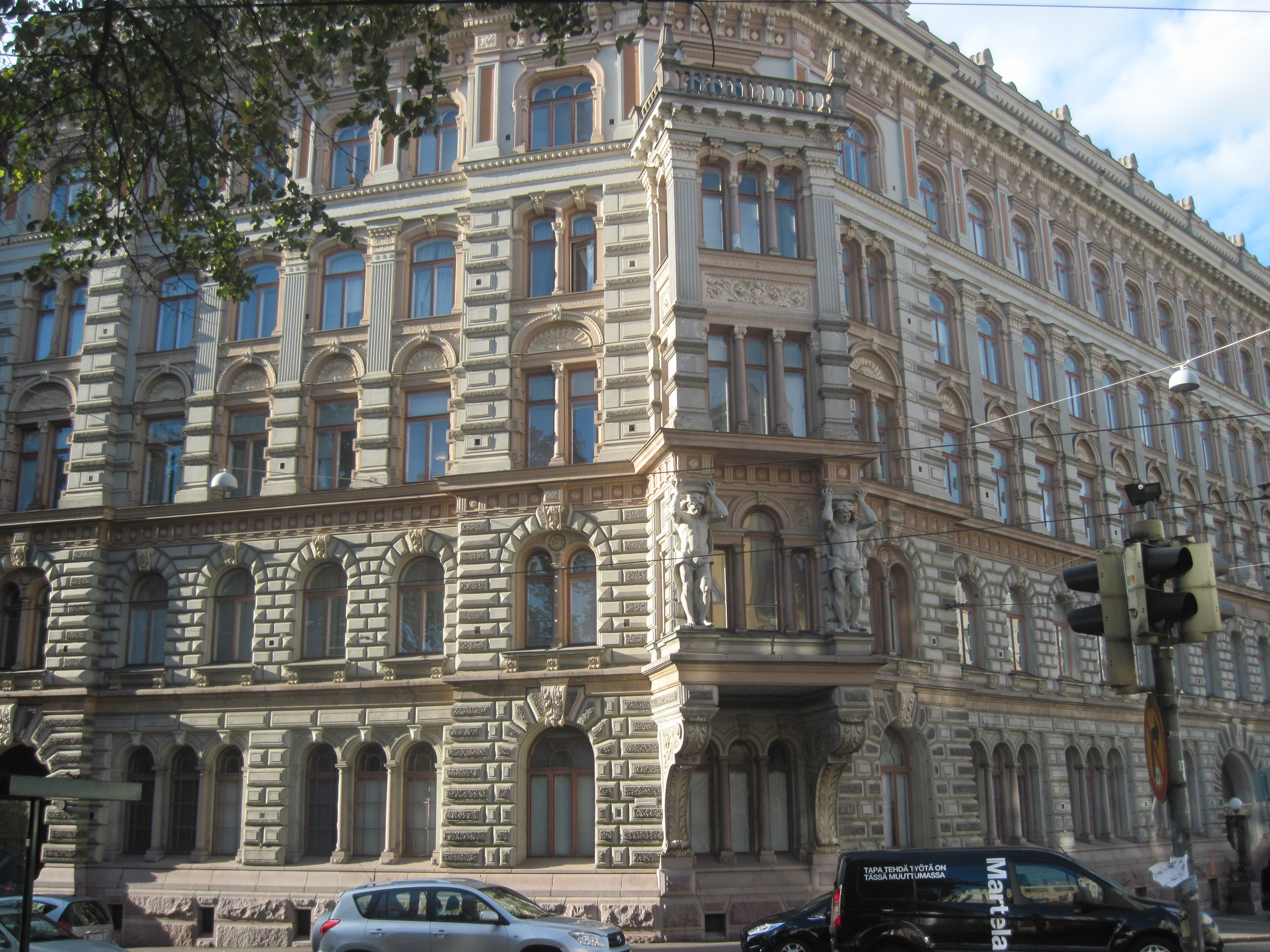 Former head office of Kaleva Insurance Company, Uudenmaankatu 1, Helsinki